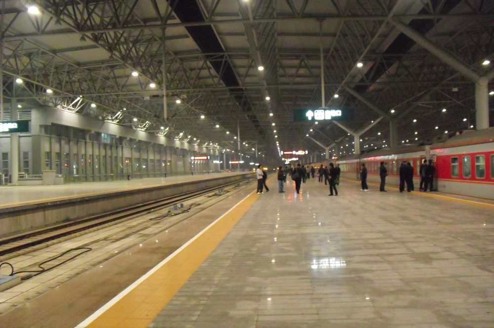 Platforms of Yichang East Railway Station